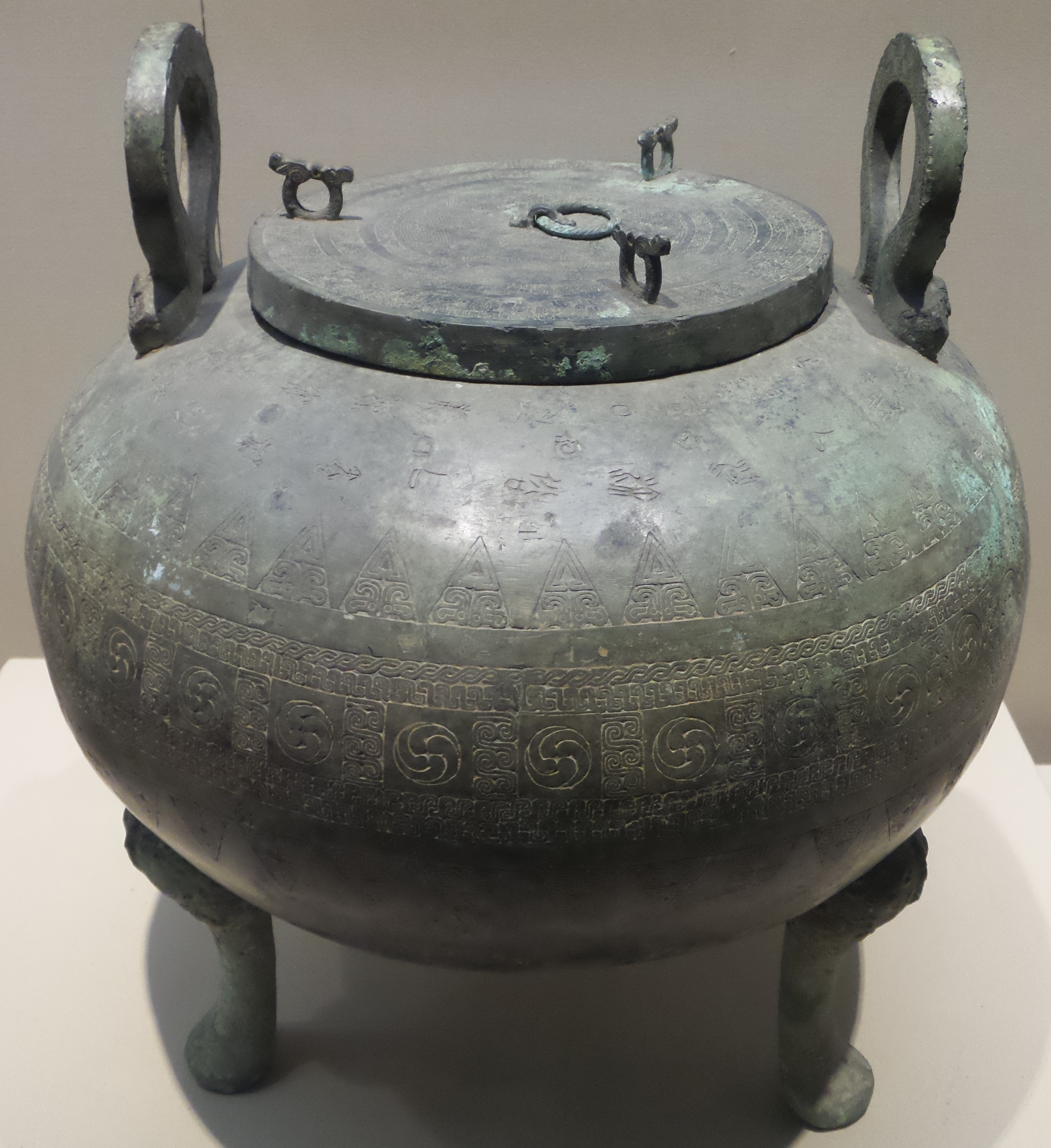 Xu Yaoyin Tang Ding: a ding cauldron (for boiling water) cast by Yin, the yaoyin (official in charge of sacrifice) of the Xu kingdom, unearthed in 1982, Tomb M306, Shaoxing. Inscribed with 44 characters recording Yin's ambition to restore the Xu kingdom which had been destroyed by Wu. 40.8 cm tall. Collection of Zhejiang Provincial Museum.